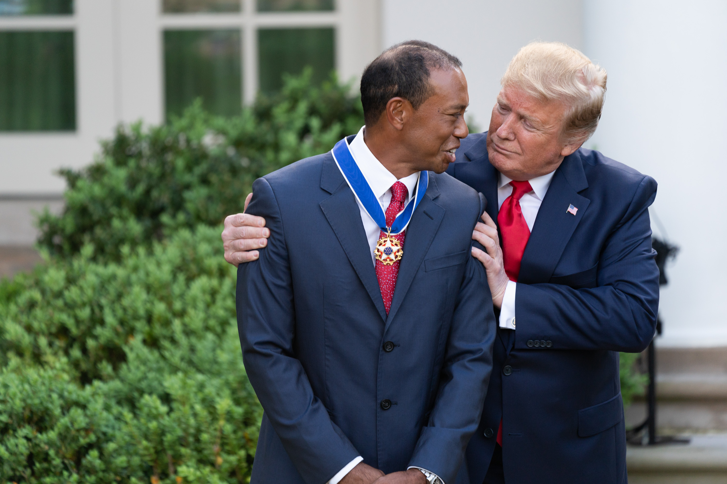 President Donald J. Trump presents the Presidential Medal of Freedom to Tiger Woods May 6, 2019, in the Rose Garden of the White House. (Official White House Photo Shealah Craighead)